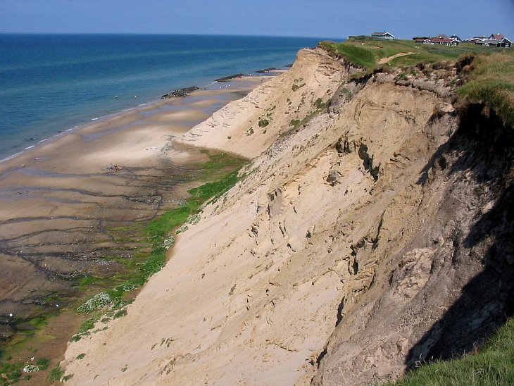 a beach and a cliff in Denmark, North Sea, between Lønstrup and Rubjerg Knude